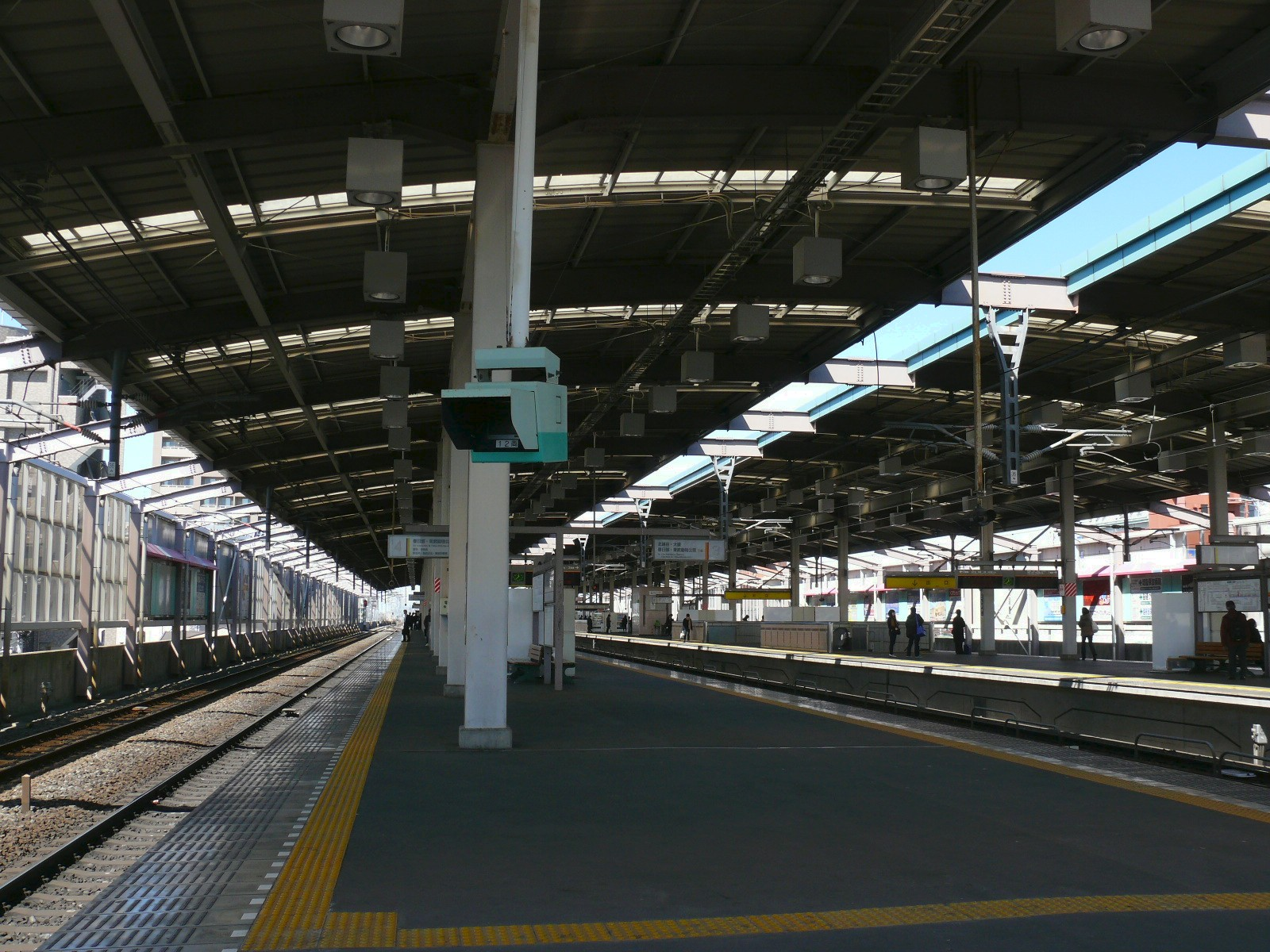 The platforms at Koshigaya Station in Saitama Prefecture, Japan